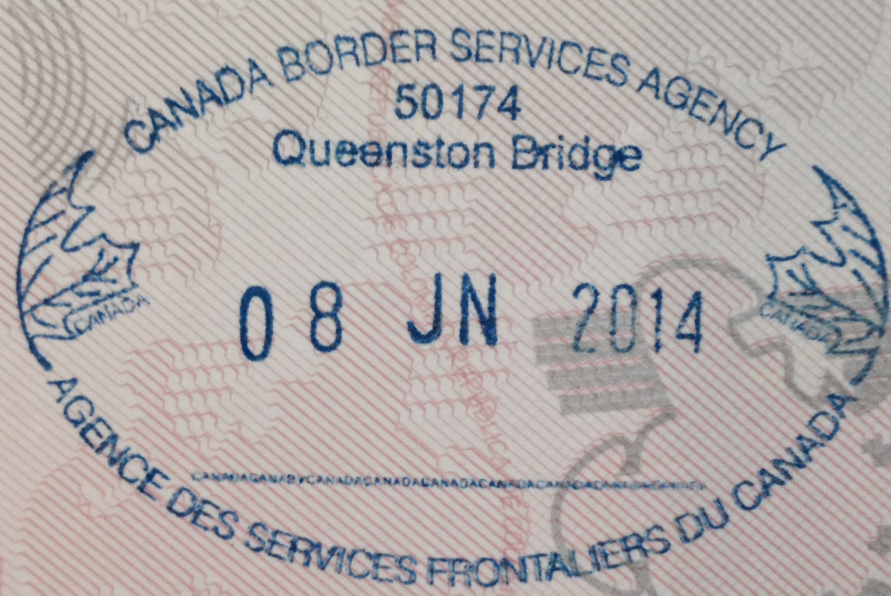 Queenston Bridge entry stamp on a Colombian passport